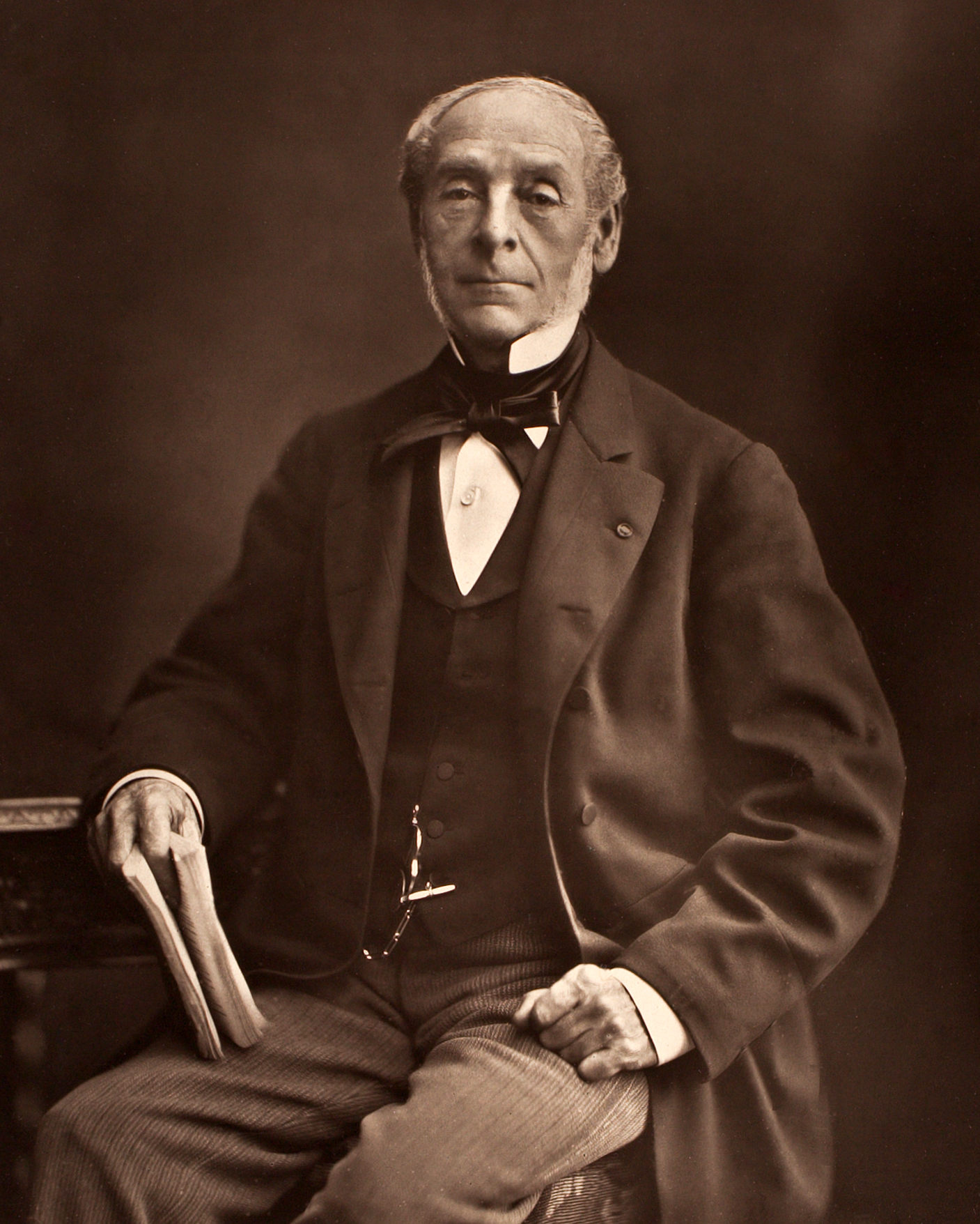 Ernest Wilfrid Legouvé (born 1807),Series: Galerie Contemporaine Woodburytype